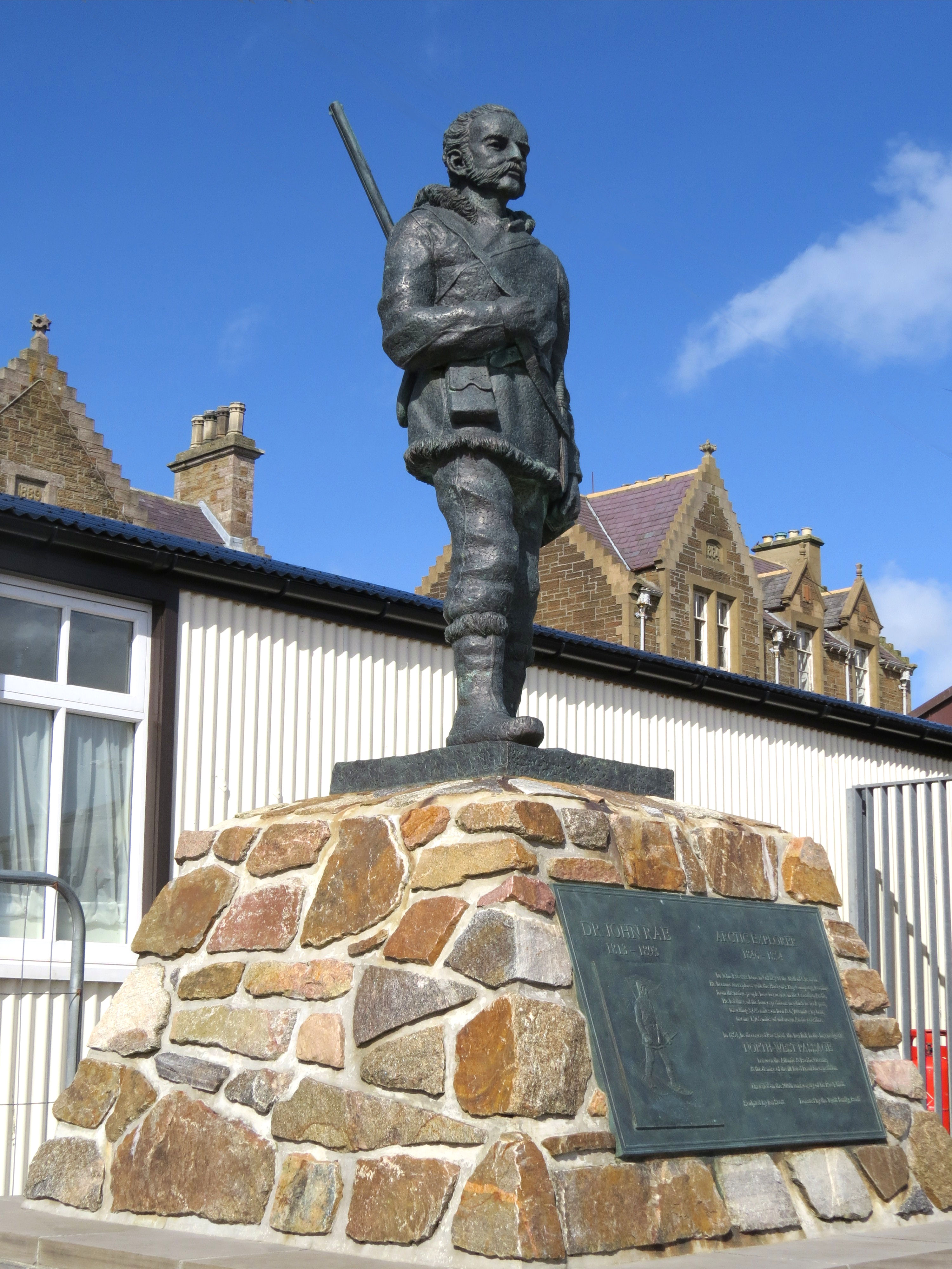 John Rae statue, Stromness pier, Stromness, Orkney, Scotland